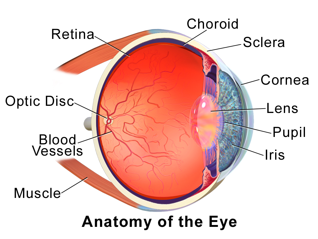 Anatomy of the Eye. See a related animation of this medical topic.